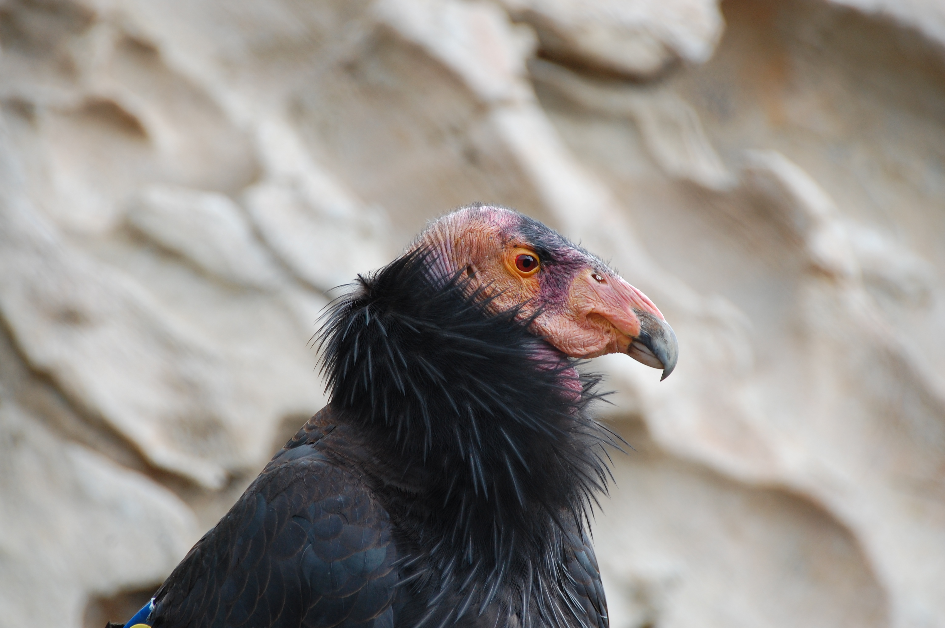 A California Condor at San Diego Zoo, California, USA.